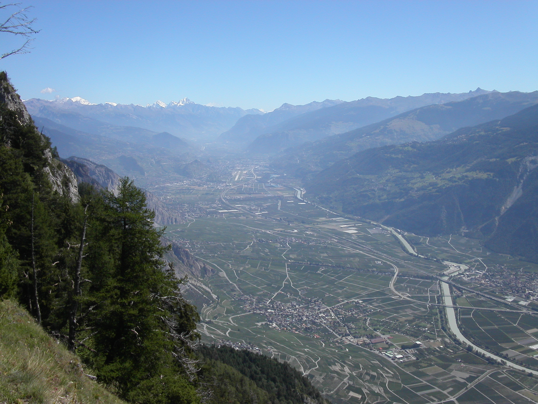 Valais, Leytron